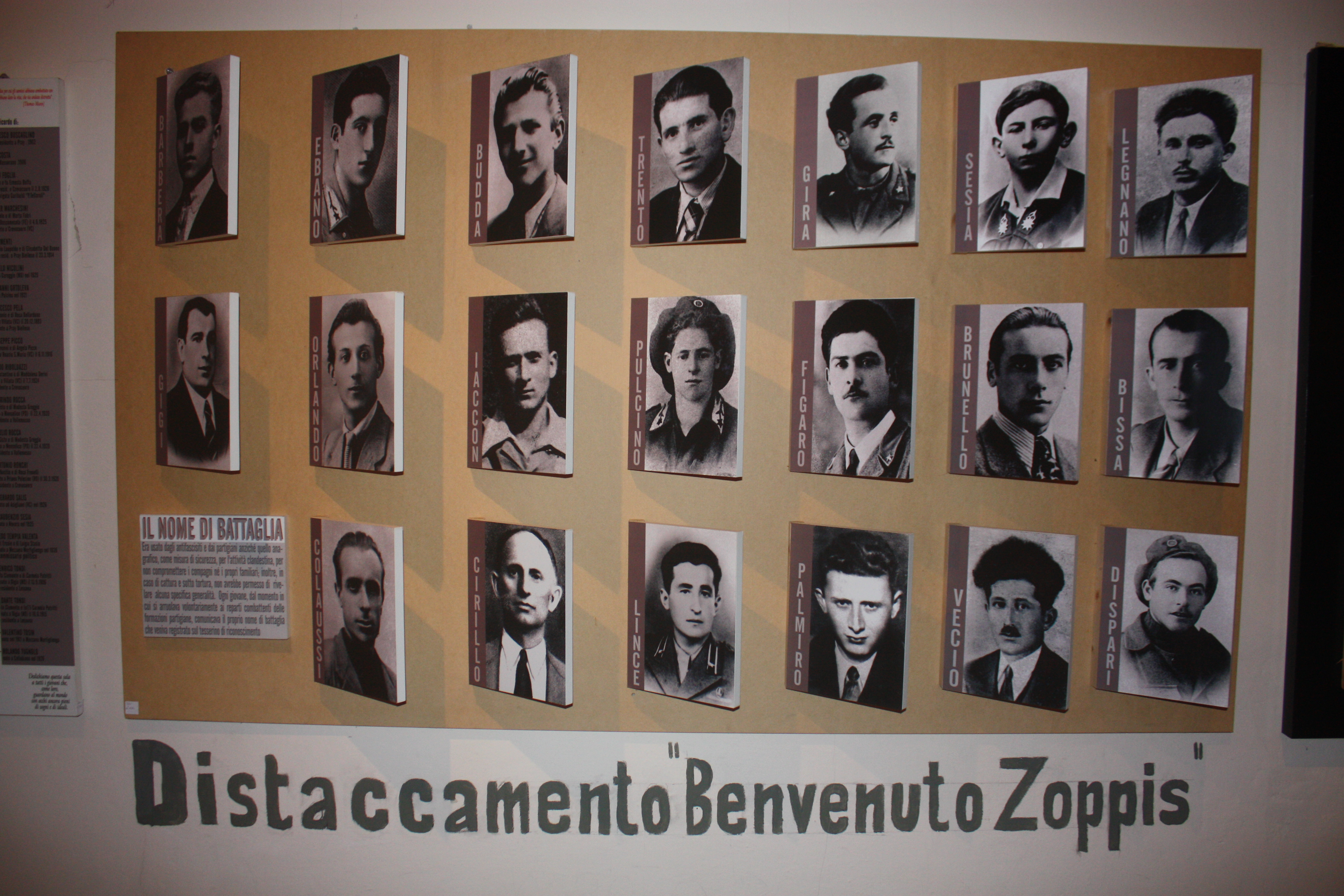 The victims of the Massacre of Salussola